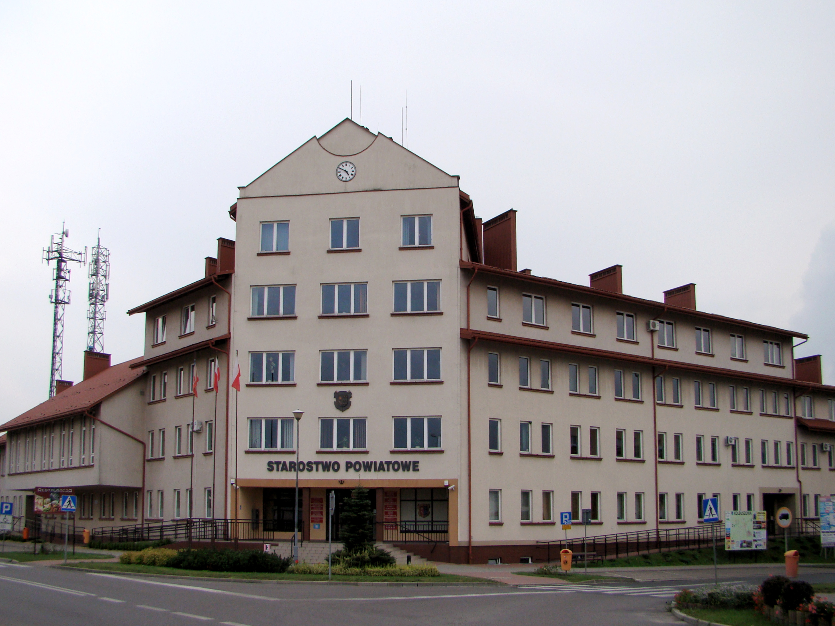 Kolbuszowa - District Governor's Office